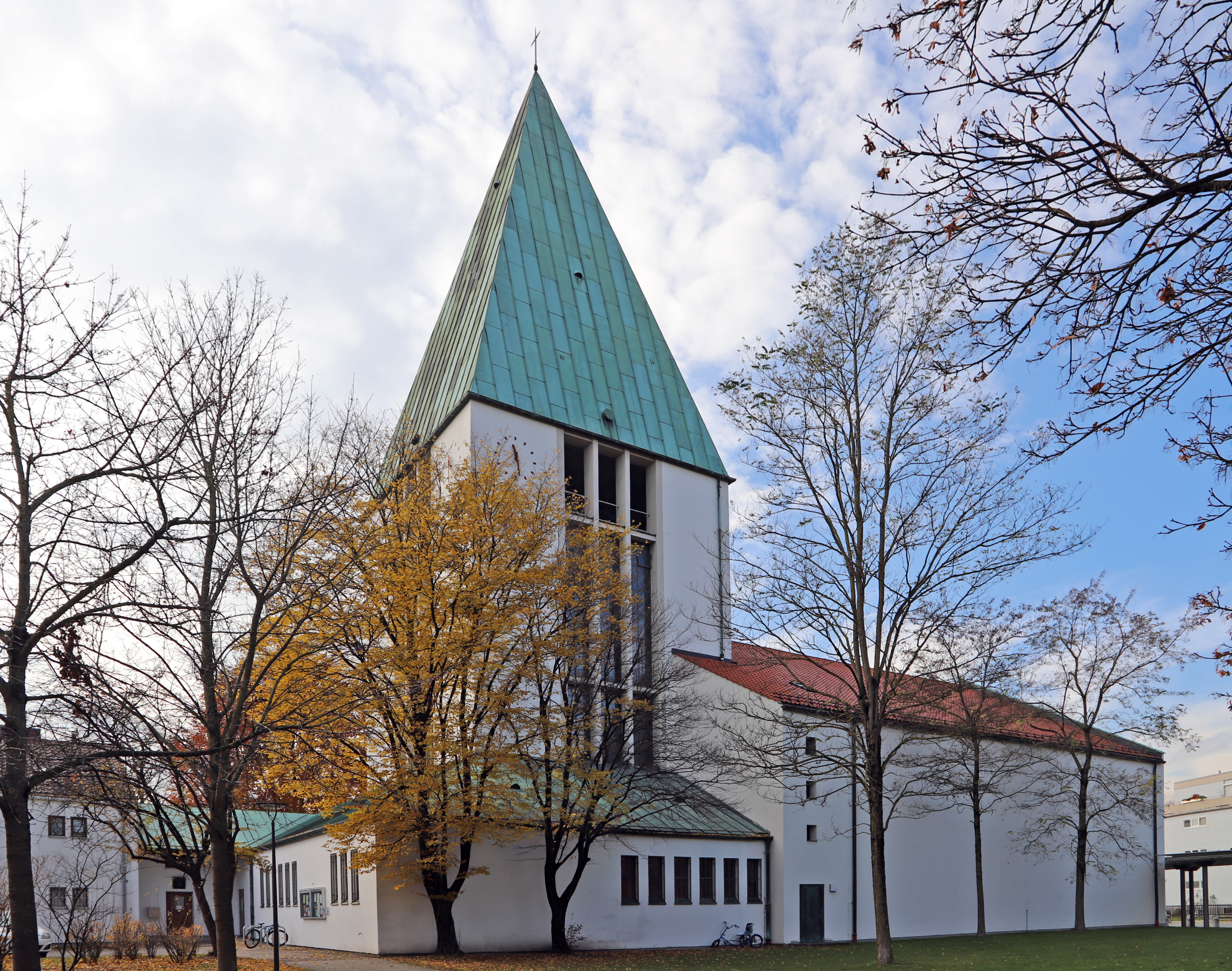 St. Lantpert München